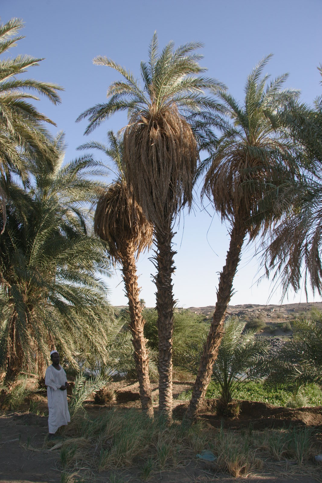 Bit Tamudhah (بت تموضة) palm tree on Sherari Island in Dar al-Manasir, Northern Sudan.) Date cultivation in Dar al-Manasir.